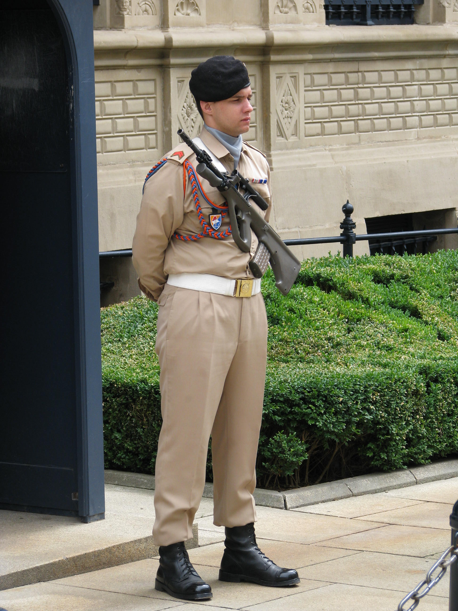 Guard in front of Grand Ducal Palace, Luxembourg